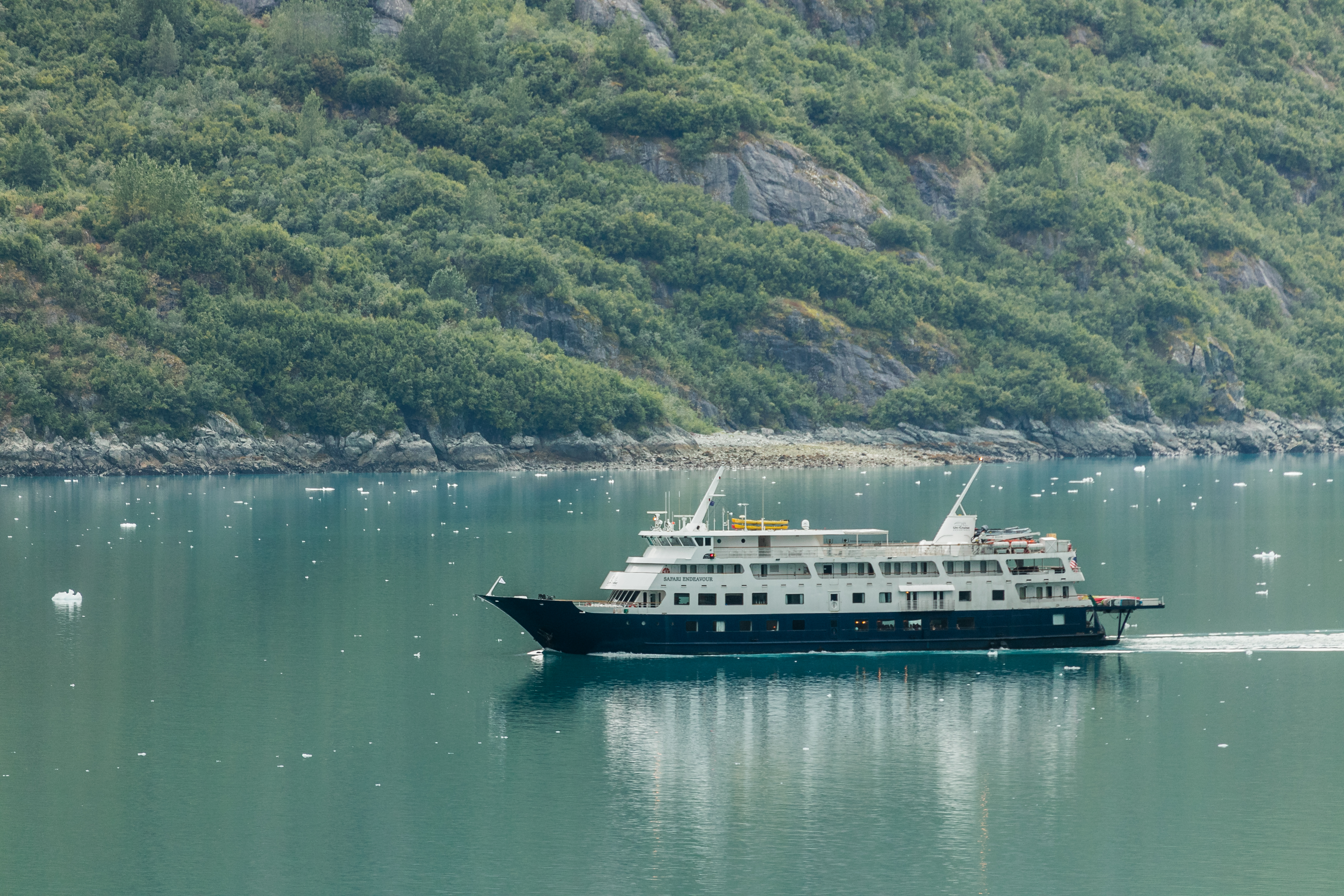 Safari Endeavour vessel, Glacier Bay National Park, Alaska, United States